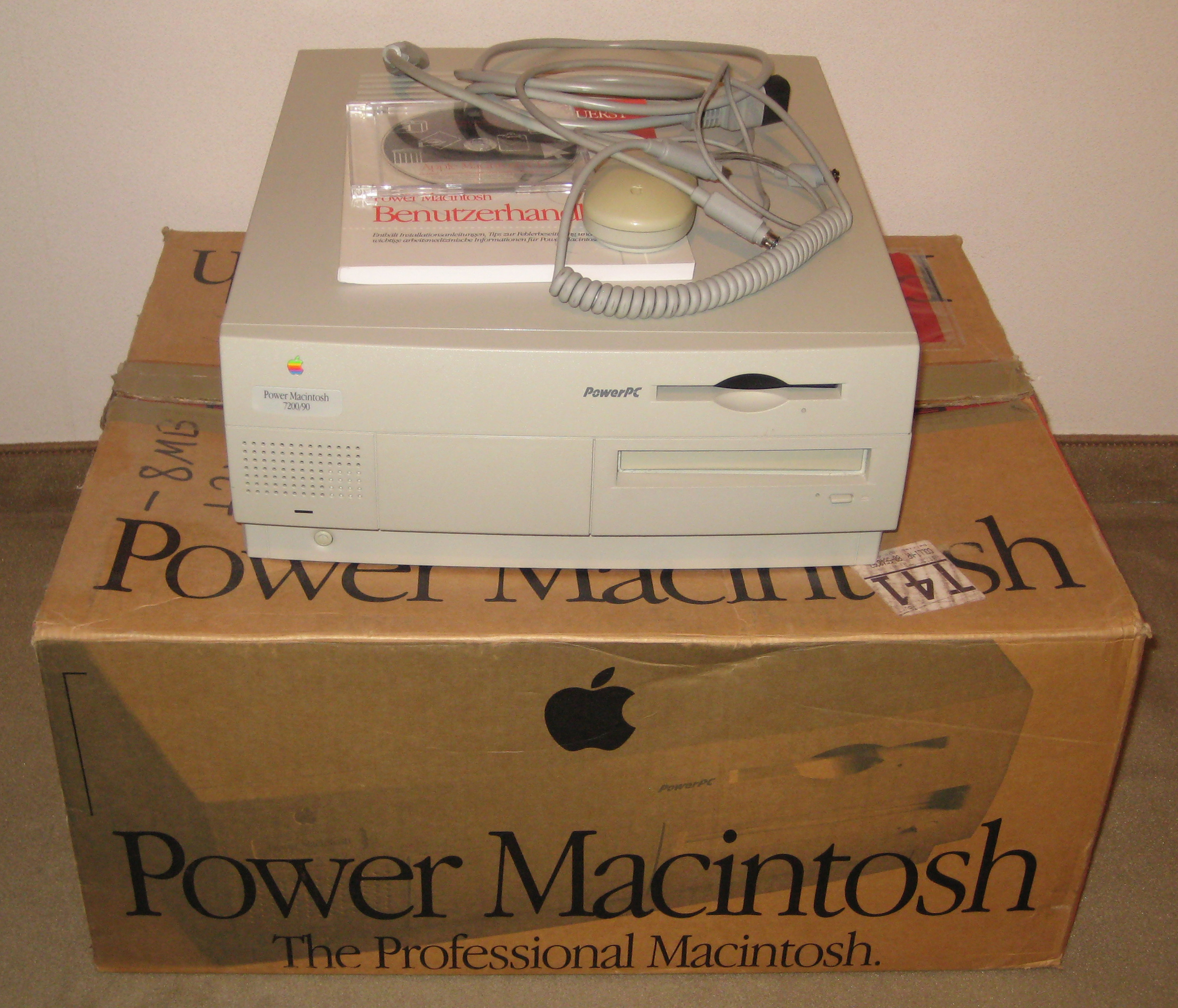 Apple Macintosh 7200/90 PowerPC with Motorola PPC 601